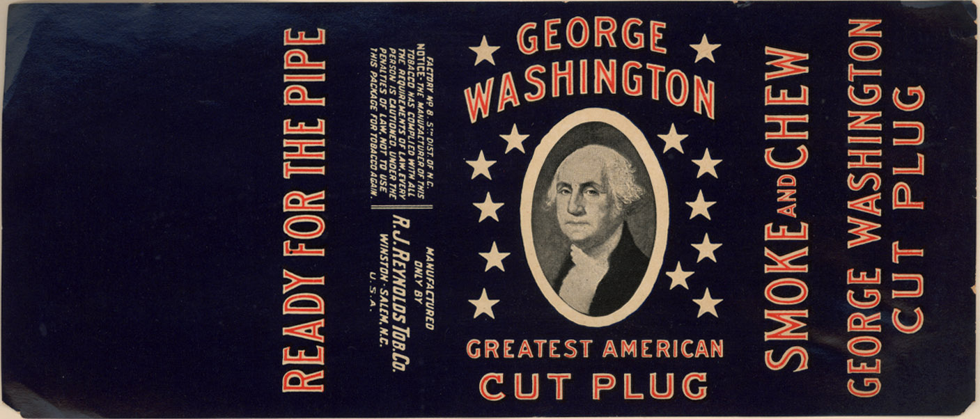 Label for George Washington brand of cut plug chewing tobacco manufactured by the R. J. Reynolds Tobacco Company. The Library of Congress American Memory, Washington, D.C.